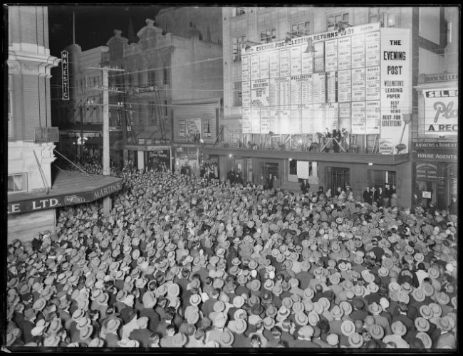 Photographer: William Hall Raine (1892-1955)[1] Crowd in Willis Street, Wellington, awaiting the results of the 1931 general election, 1931 New Zealand general election, 1931 Reference number: 1/1-004500-G Dry plate glass negative Photographic Archive, Alexander Turnbull Library